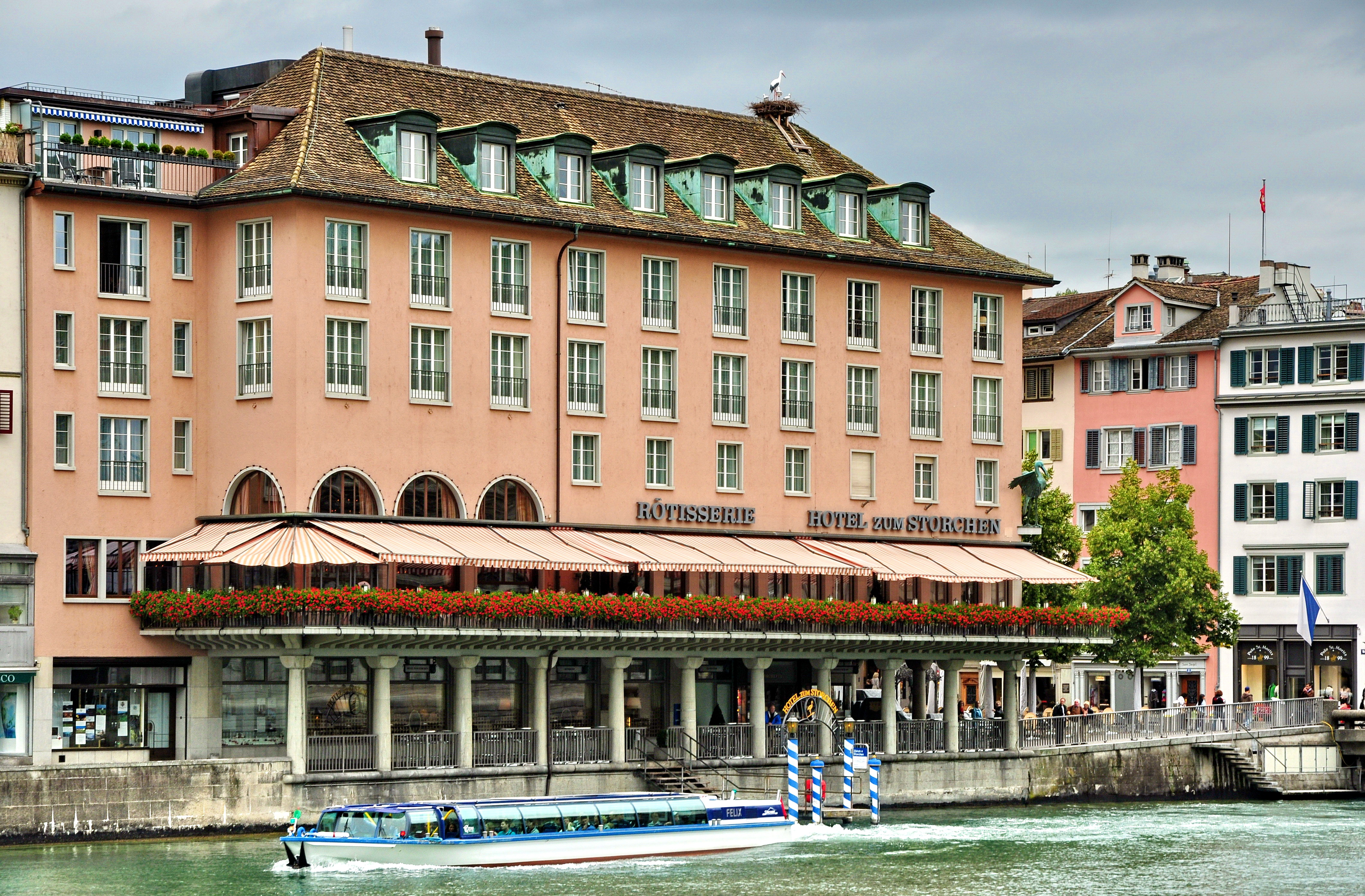 Hotel respectively guild house zum Storchen in Zürich-Lindenhof (Switzerland), as seen from Limmatquai, Weinplatz to the right, St. Peter church tower in the background, Zürichsee-Schifffahrtsgesellschaft (ZSG) MS Felix on the Limmat river crossing towards Bürkliplatz.